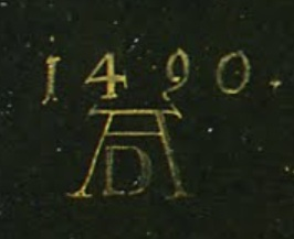 Detail showing later Monogram from the Portrait Diptych of Dürer's Parents